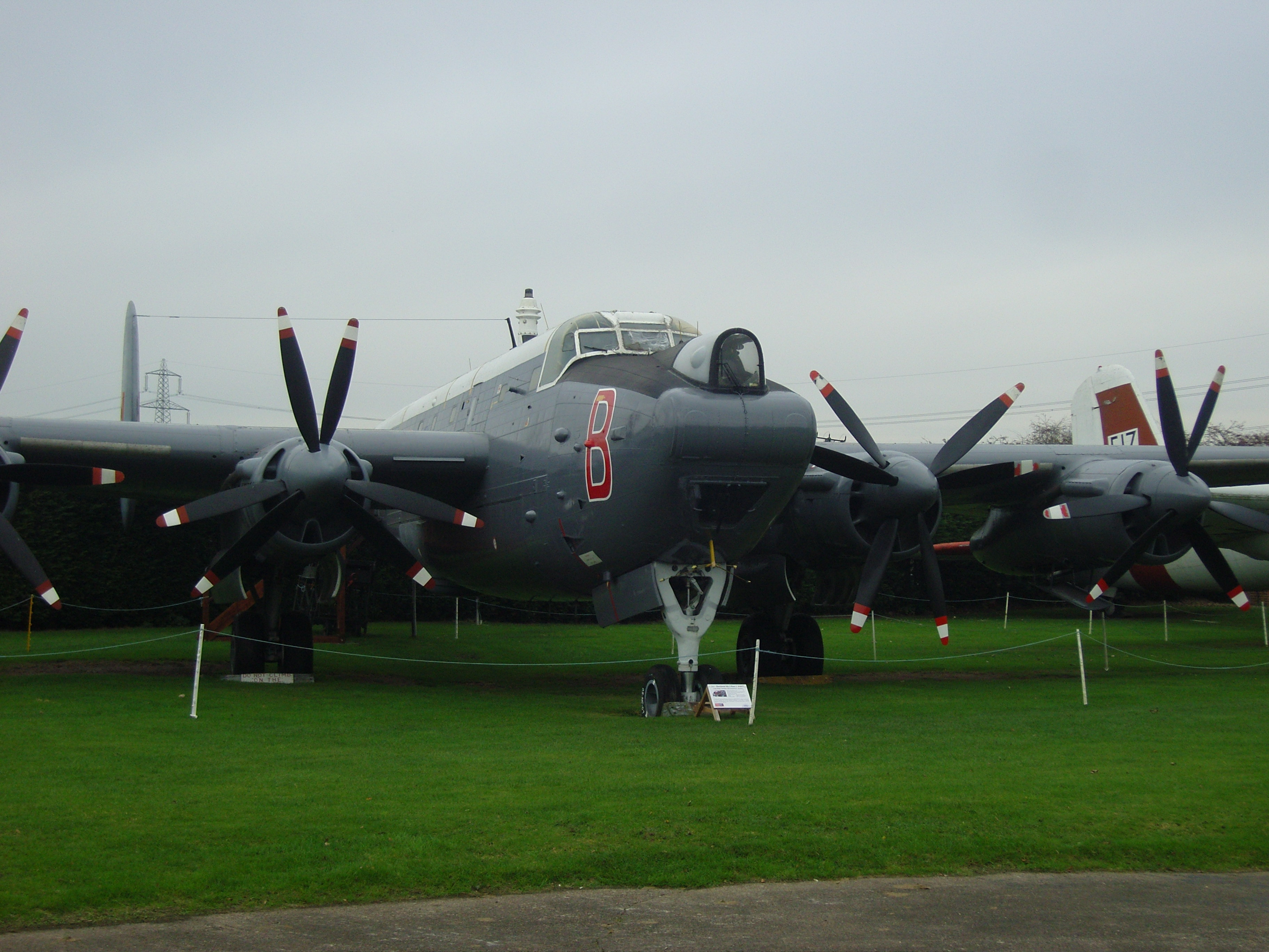 Photographed at Newark Air Museum, Winthorpe Airfield, Nottinghamshire, England. Vintage, Veteran and Preserved Aircraft